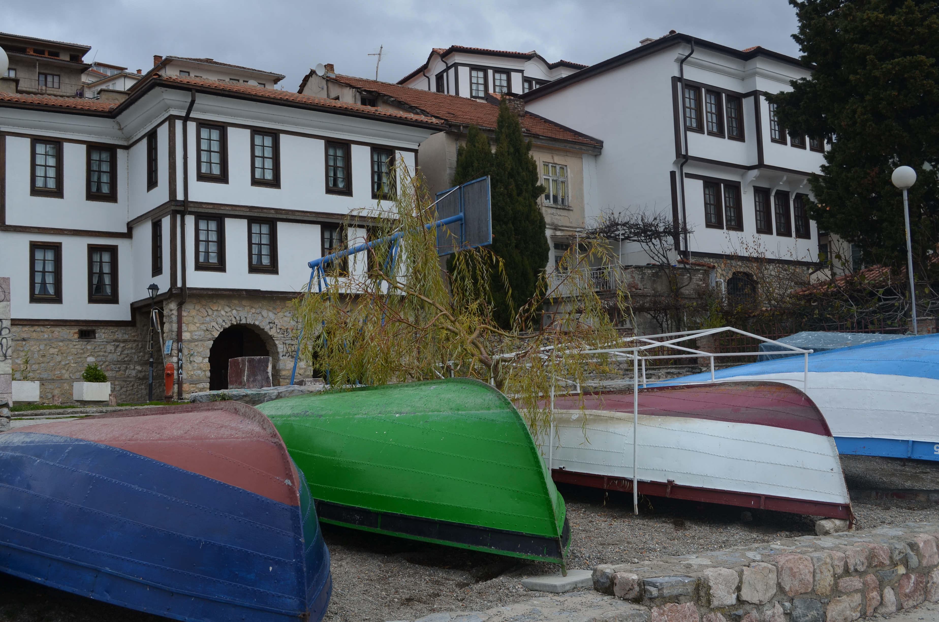 Ohrid traditional house, Macedonia